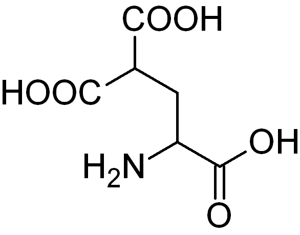 Structure of Carboxyglutamic acid, drawn by me.